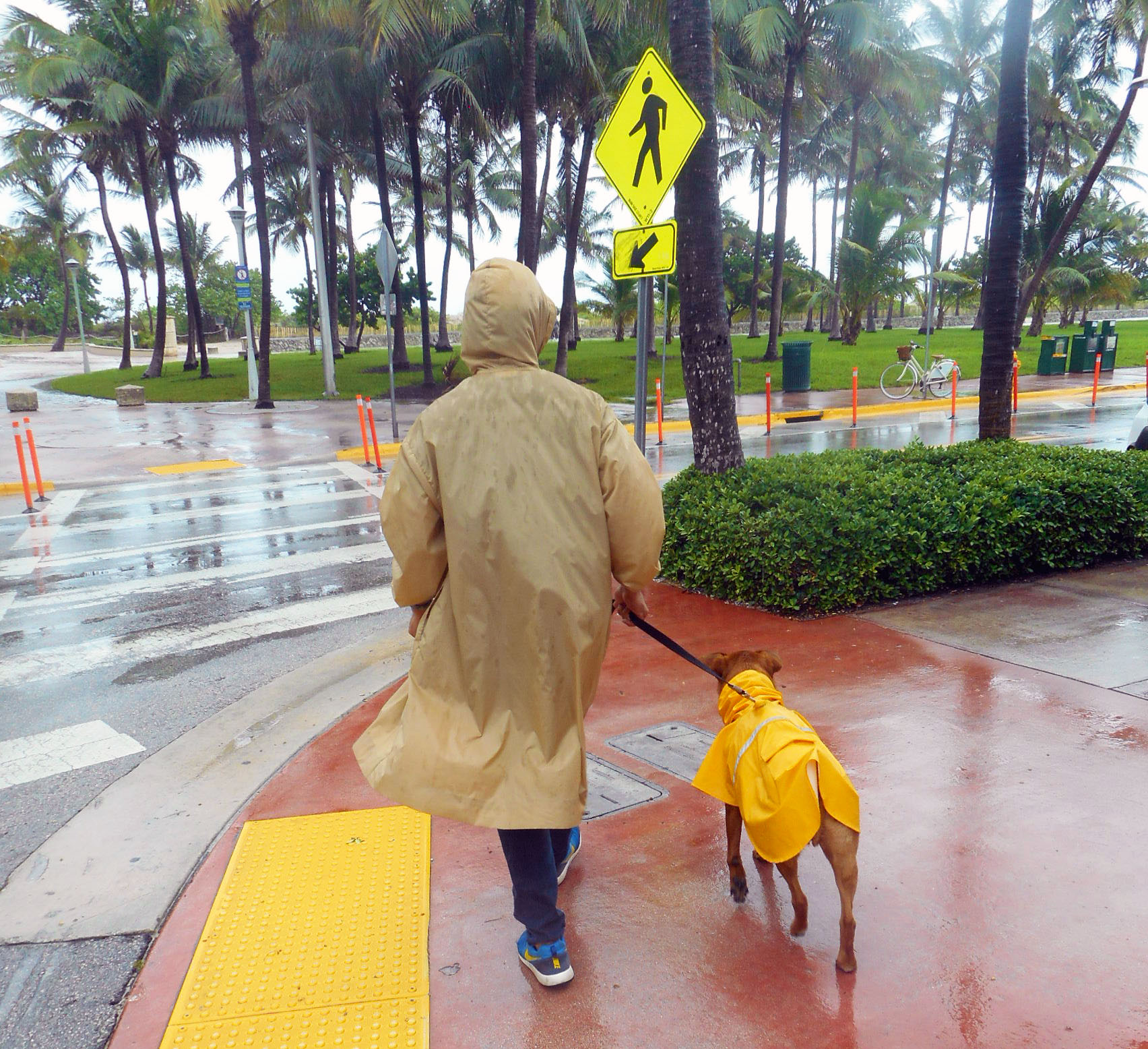 Man and dog wearing raincoats